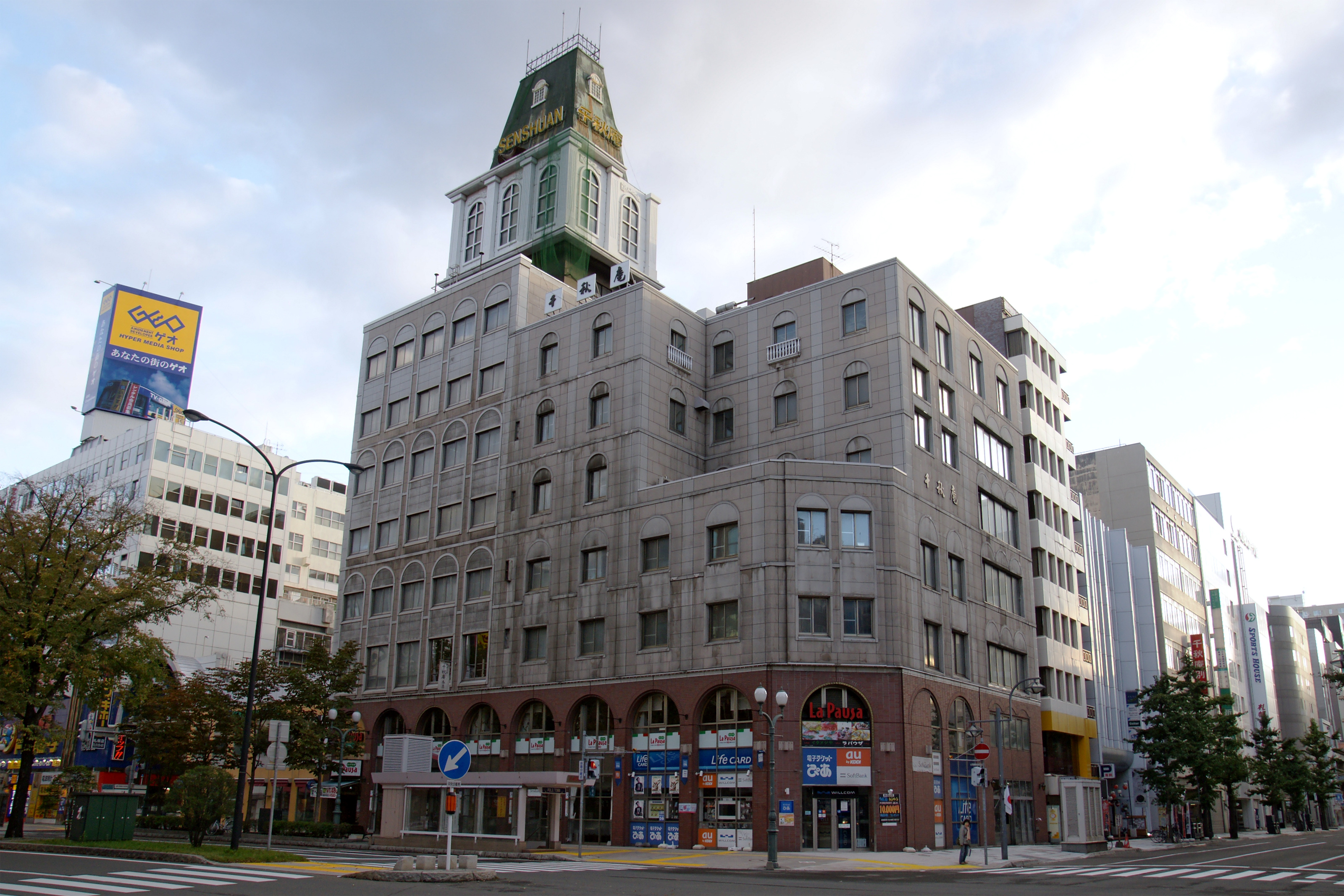 Sapporo Ekimae-dori in Sapporo, Hokkaido prefecture, Japan